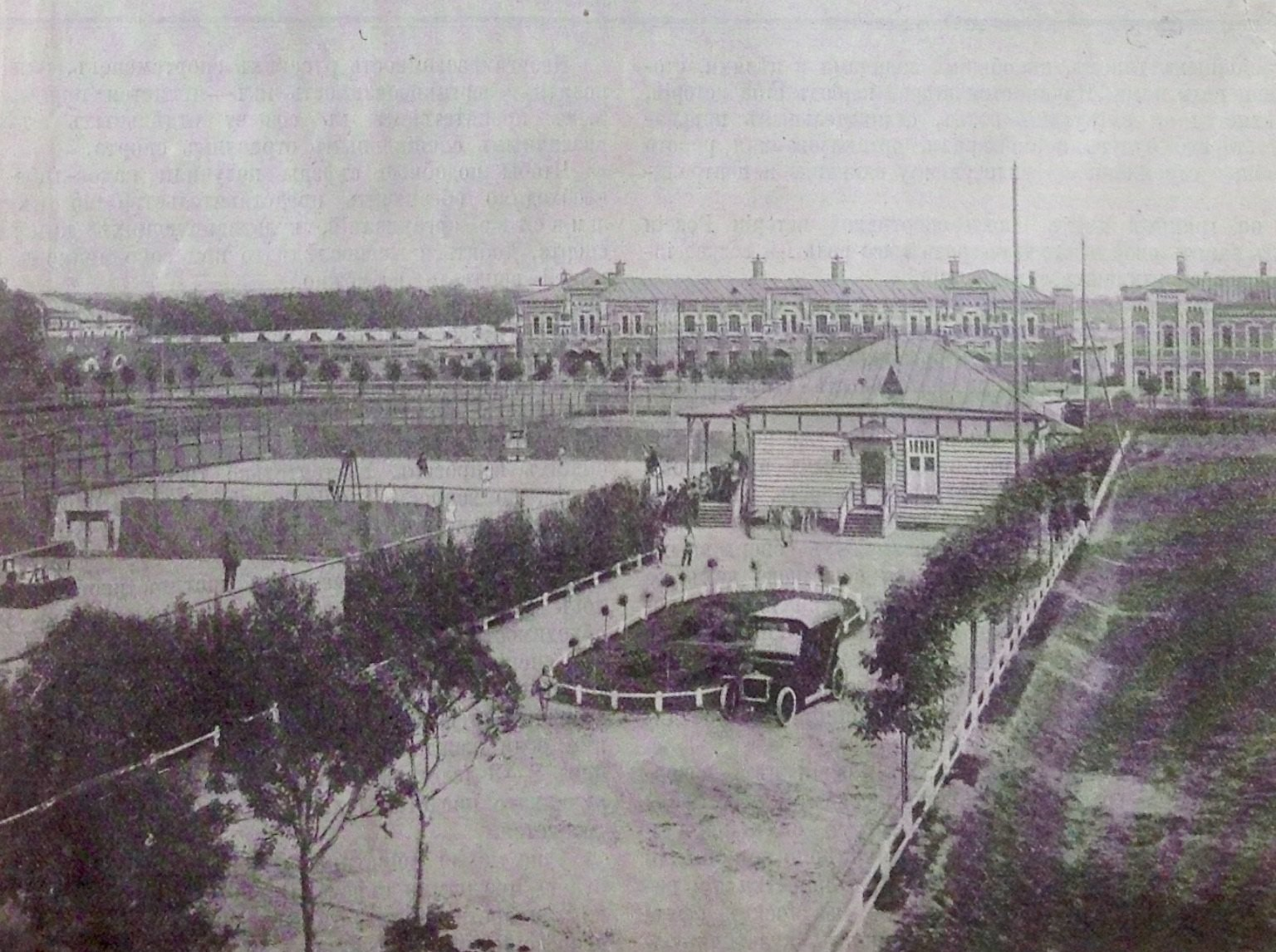 Sokolnichesky sport club stadium in 1909